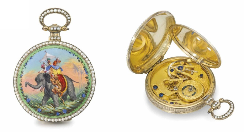 EDOUARD JUVET SIGNED - ENAMEL A D PEARL-SET DUPLEX WATCH, CIRCA 1830